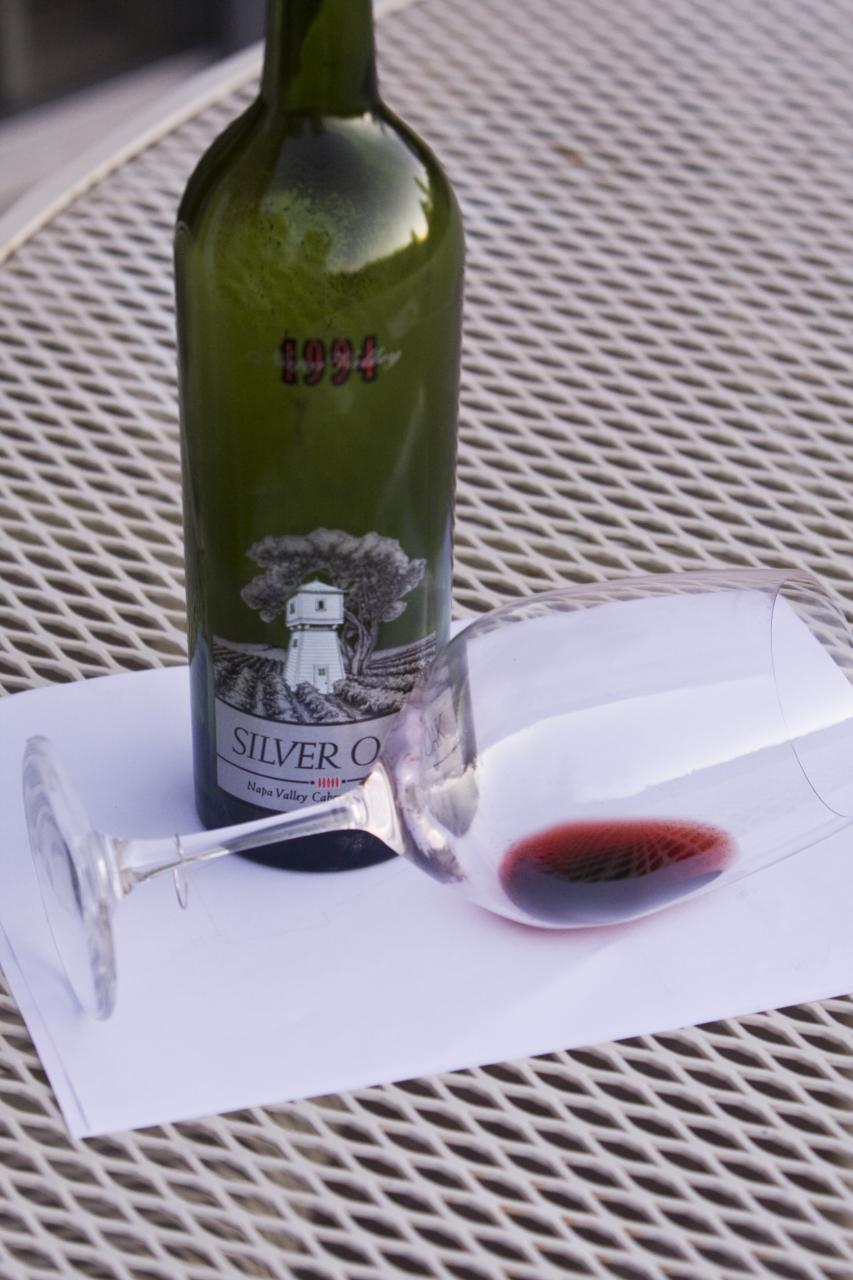 A bottle and remnants of a 1994 Silver Oak Cabernet Sauvignon wine from Napa Valley California.